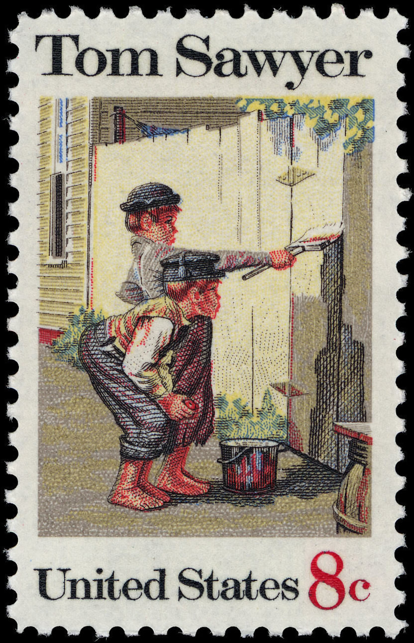 American Folklore Issue - Tom Sawyer - 8-cent 1972 U.S. stamp.